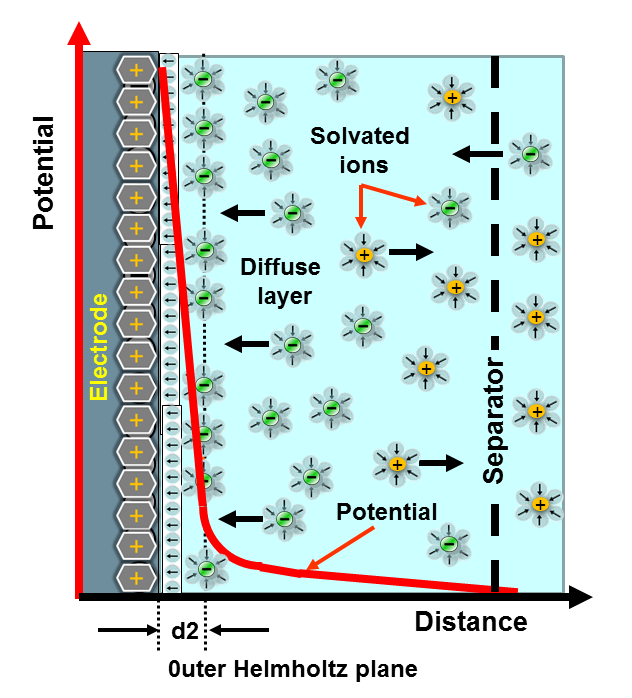 Potential distribution in a Helmholtz double-layer